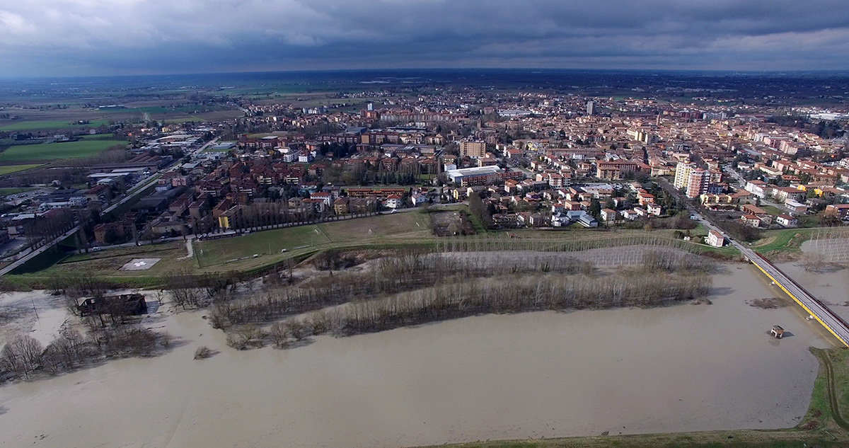 La piena del Reno passa per Cento